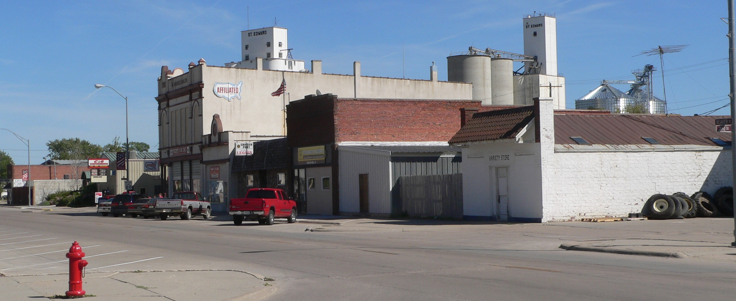 Downtown St. Edward, Nebraska: south side of Beaver Street, looking southeast from about 2nd Street.